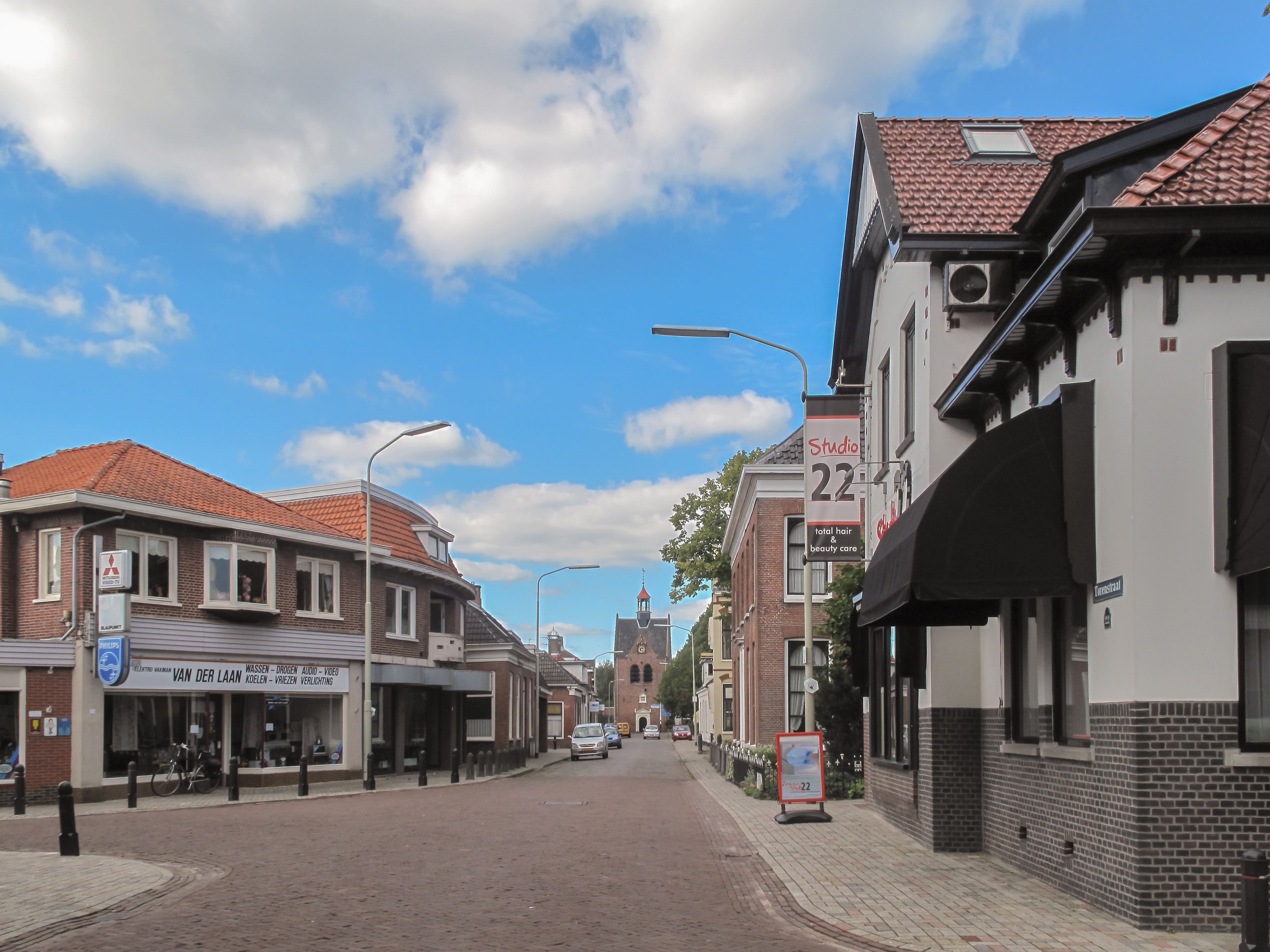 Scheemda, view to a street: de Torenstraat